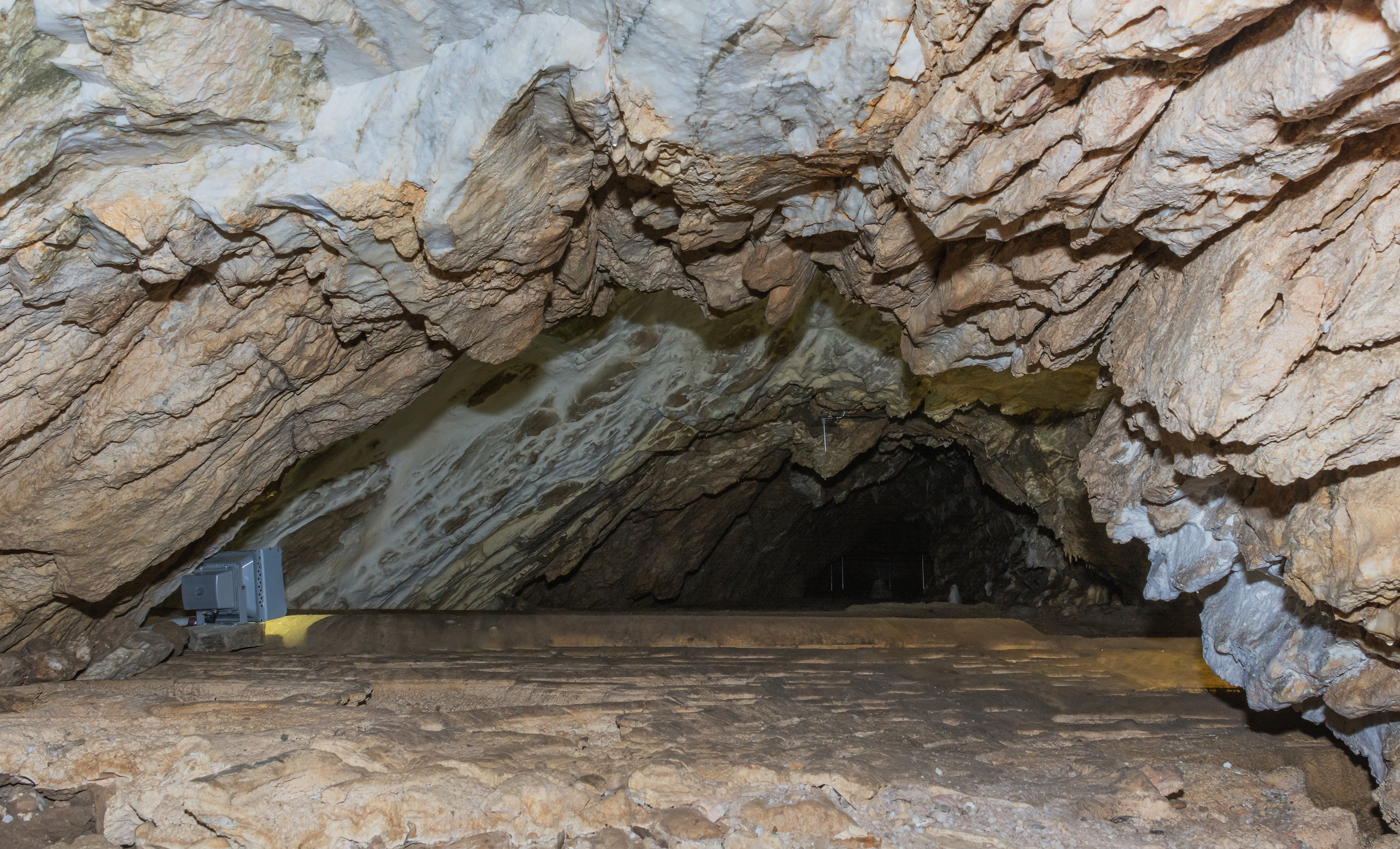 Bear Cave in Kletno (Lower Silesia, Poland), natural entrance to the cave This is a photography of Natura 2000 protected area with ID PLH020016